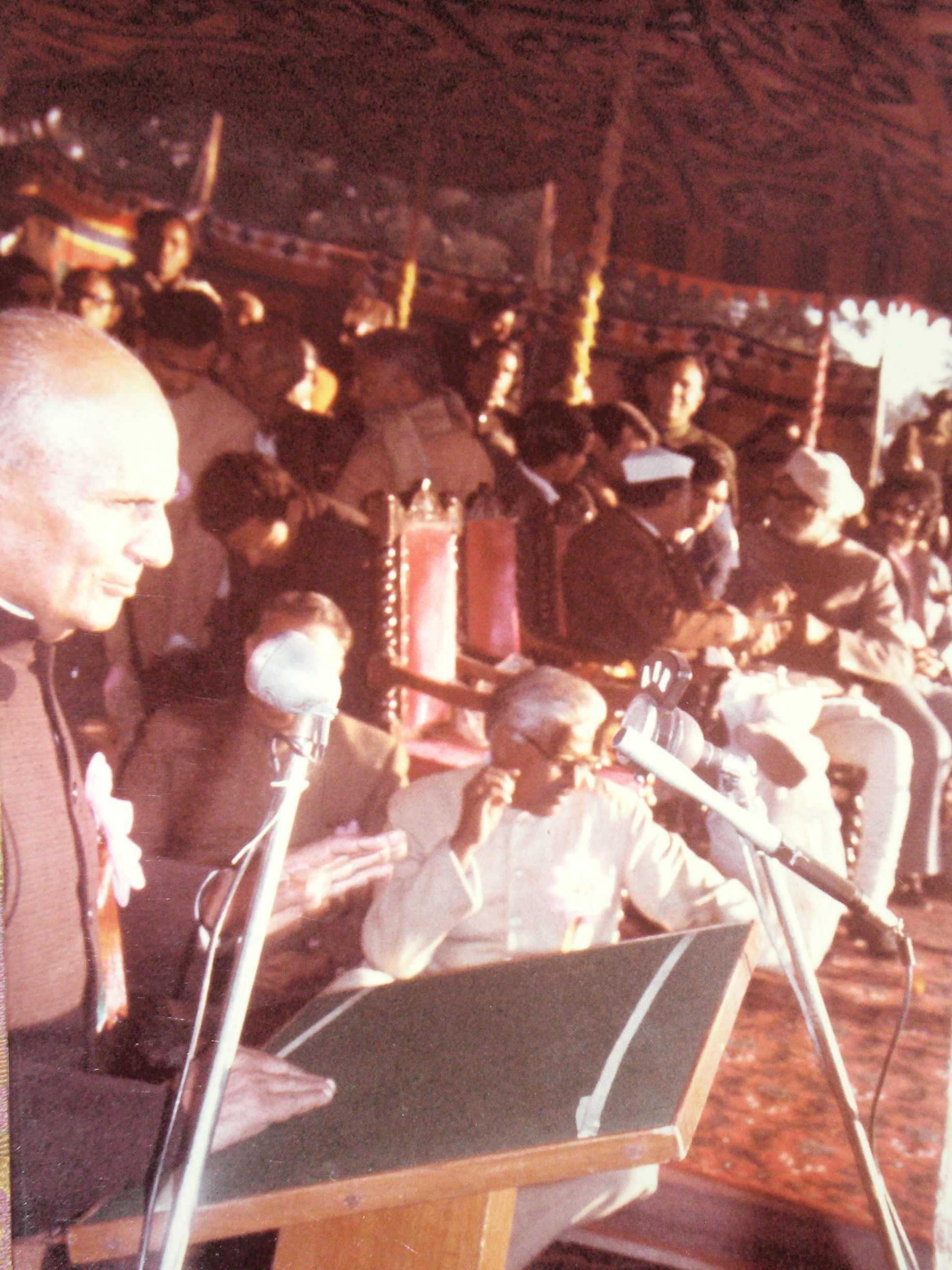 Justice Kan Singh Parihar addressing the All Rajasthan Kishan Sammelan at Jodhpur in 1973. Jodmar (talk) 18:32, 14 December 2008 This picture is one of my own collections.